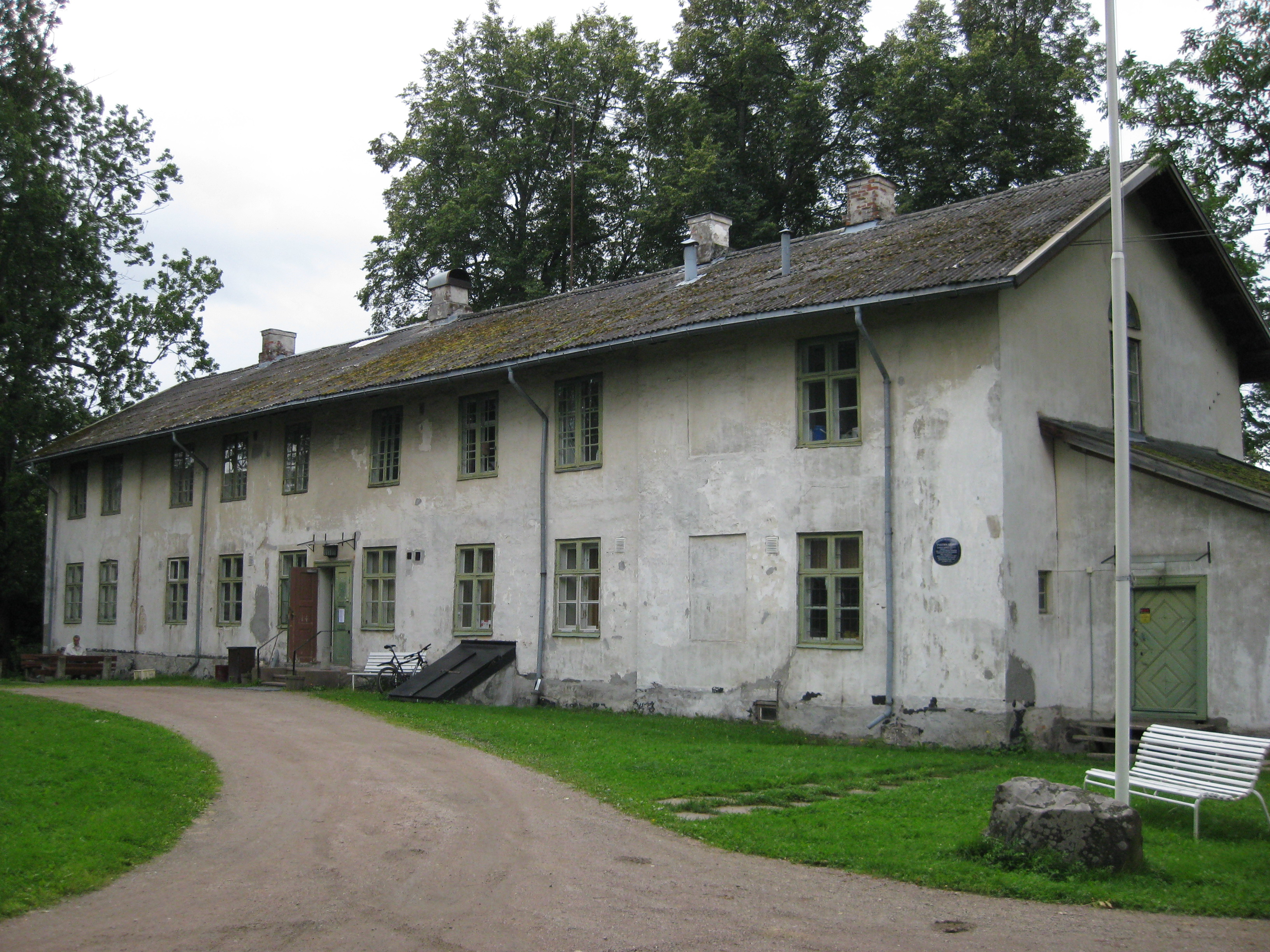 Main biulding at Tveten farm in Oslo, Norway